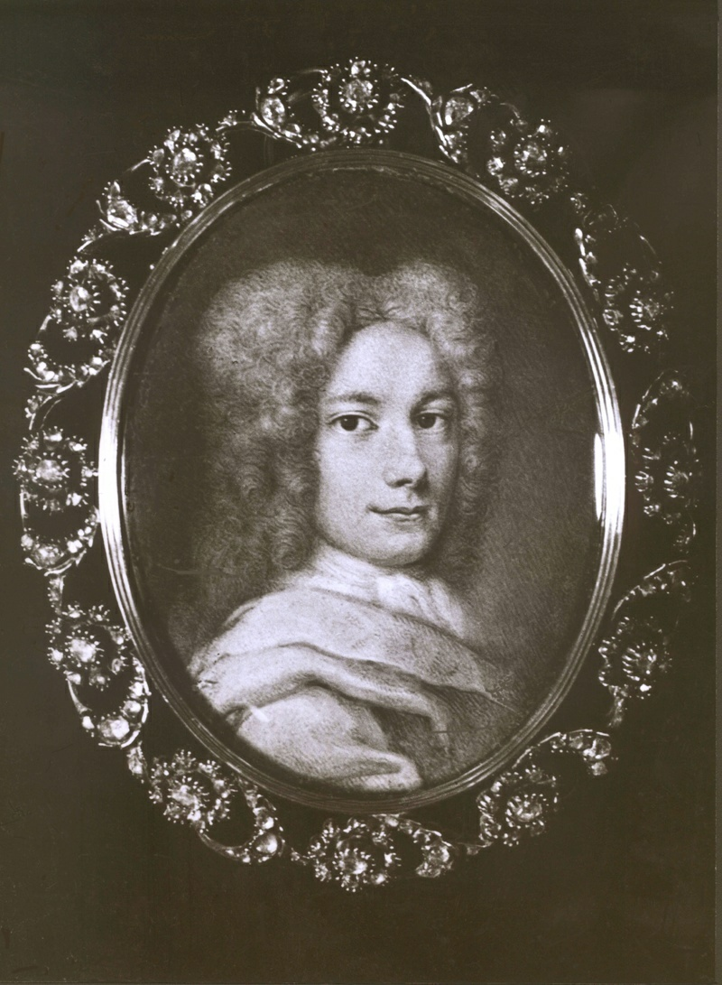 Photograph of a miniature portrait of the composer Georg Friedrich Händel (1685-1759) by Christoph Platzer. Painted circa 1710 date QS:P,+1710-00-00T00:00:00Z/9,P1480,Q5727902 when Händel was about 25. The painting was stolen from the Händel-Haus museum in 1948 and has not been recovered.